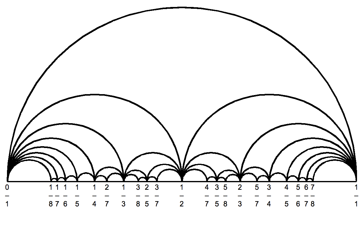 Farey diagram with arcs, order F8.